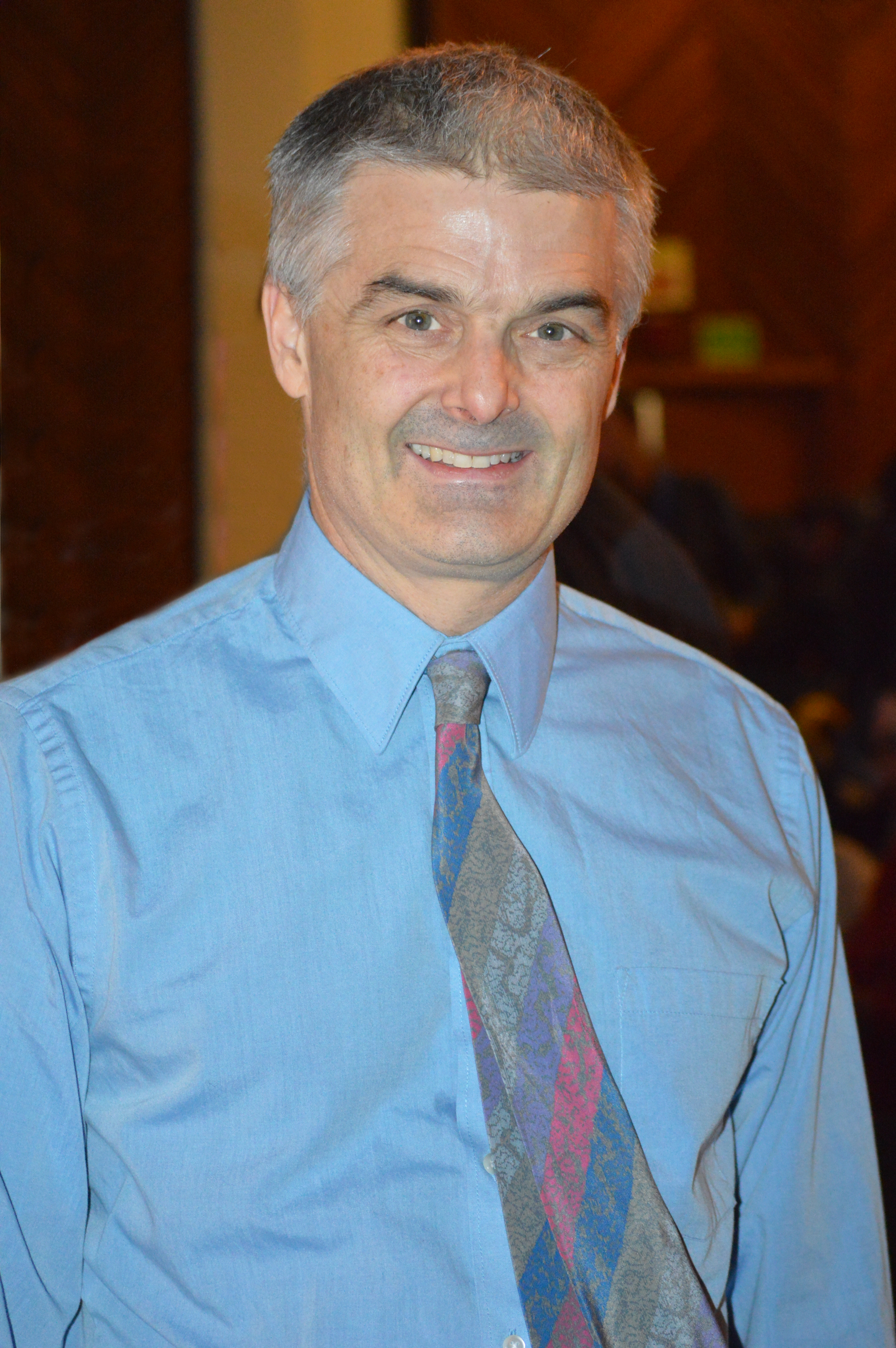 Jonathan Bergmann speaking at the 8o Congreso de Innovación y Tecnología Educativa at ITESM Campus Monterrey